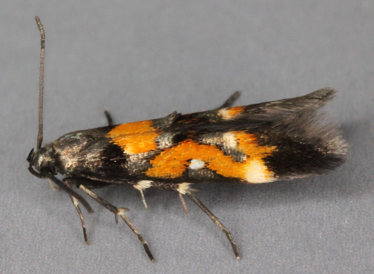 Mompha locupletella, Trawscoed, North Wales, May 2011